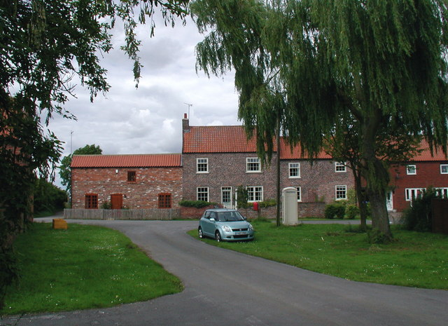 Weel, East Riding of Yorkshire, England.Looking north-northeast towards Chapel Farmhouse in the hamlet of Weel, on the northeast bank of the River Hull near Beverley.